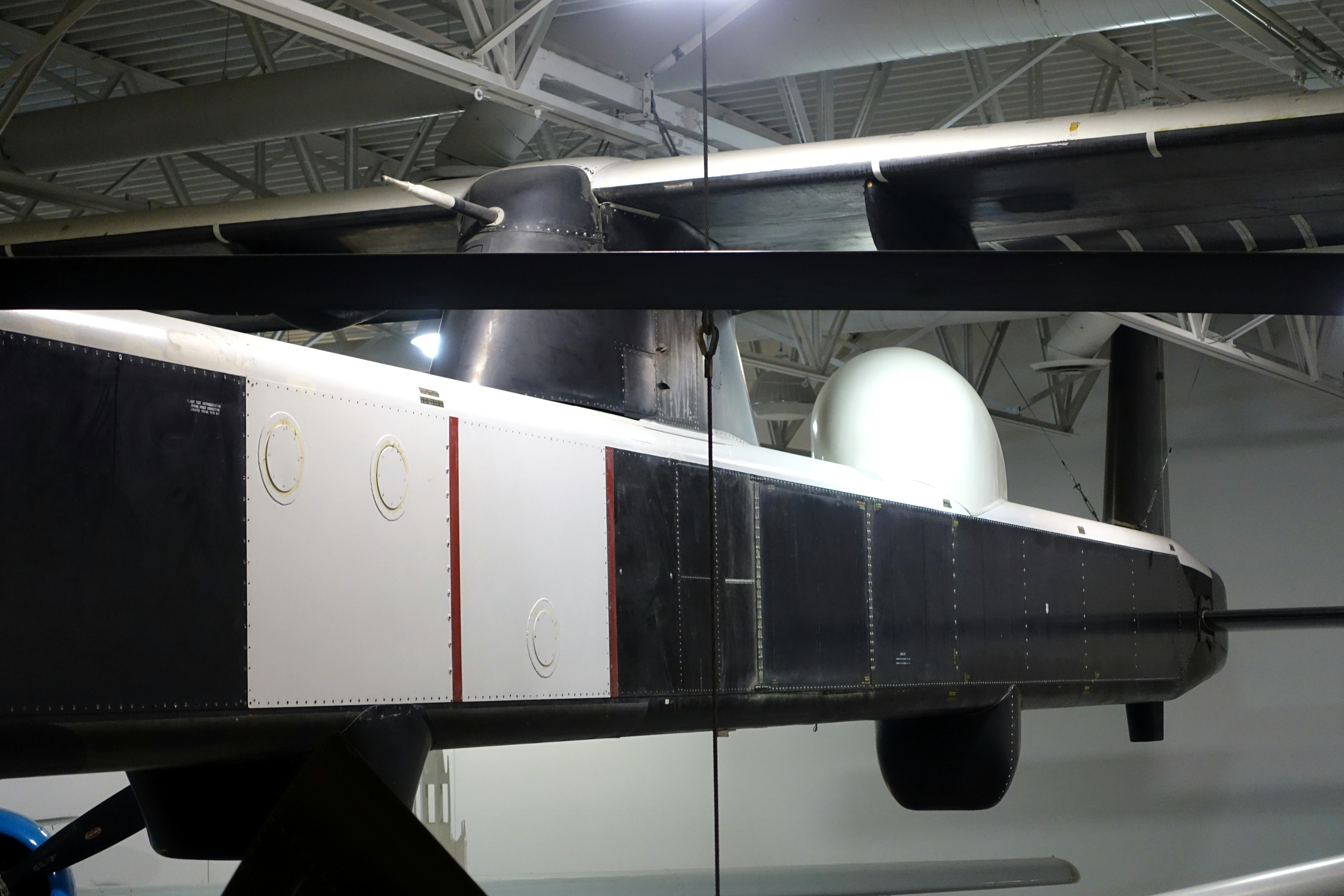 Exhibit in the Hiller Aviation Museum, San Carlos, California, USA.